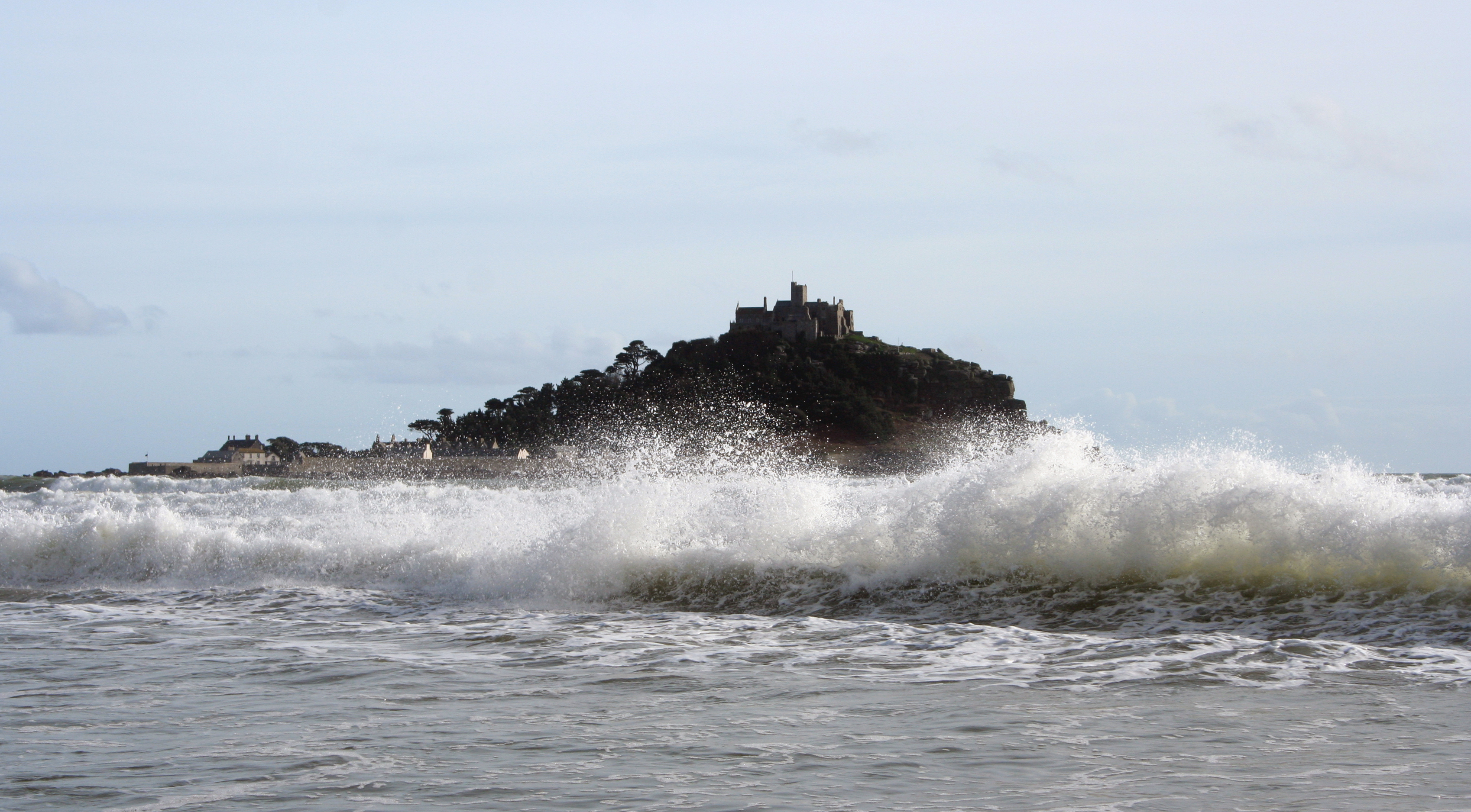 St Michael's Mount viewed from the Mounts Bay beach.